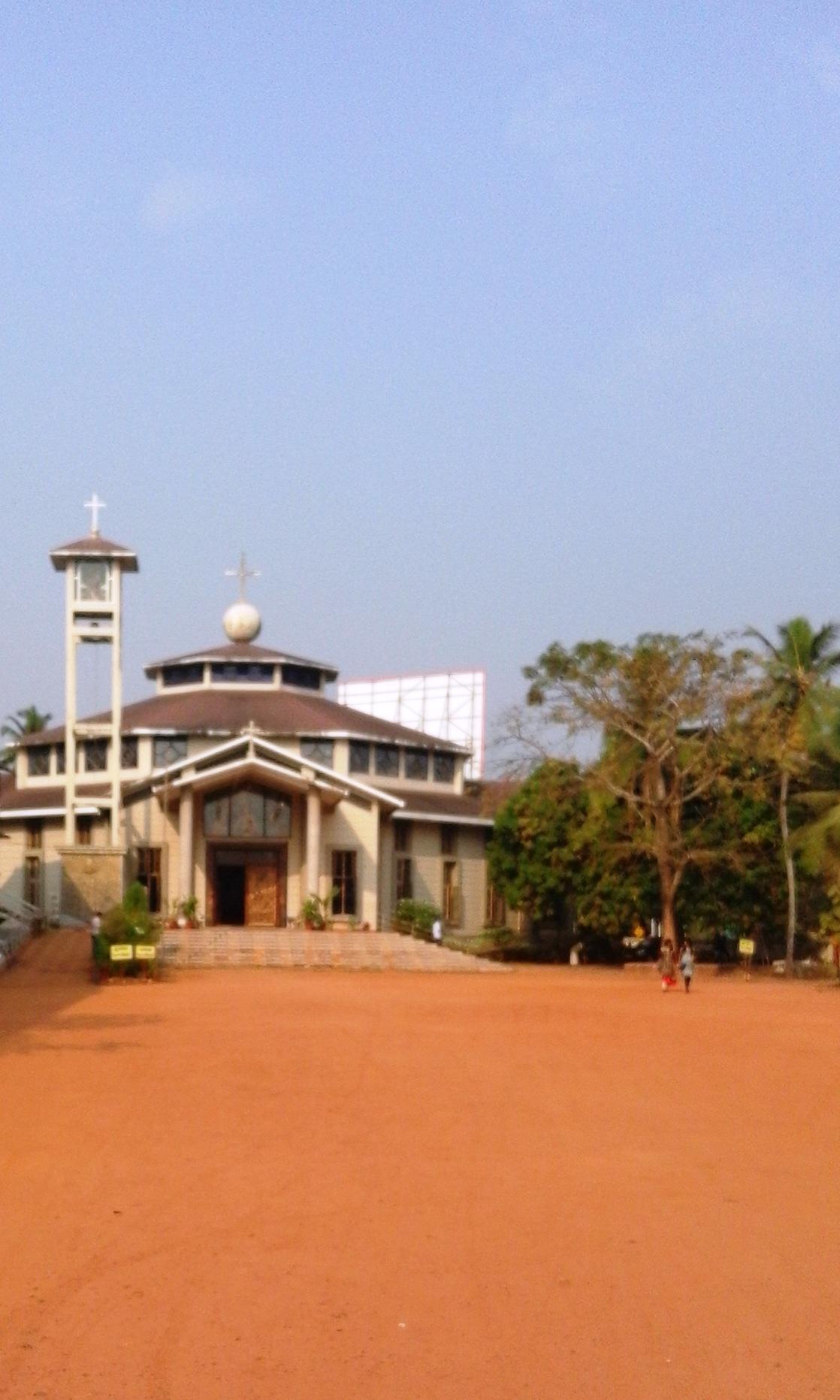 Kozhikode District, Kerala province, India.